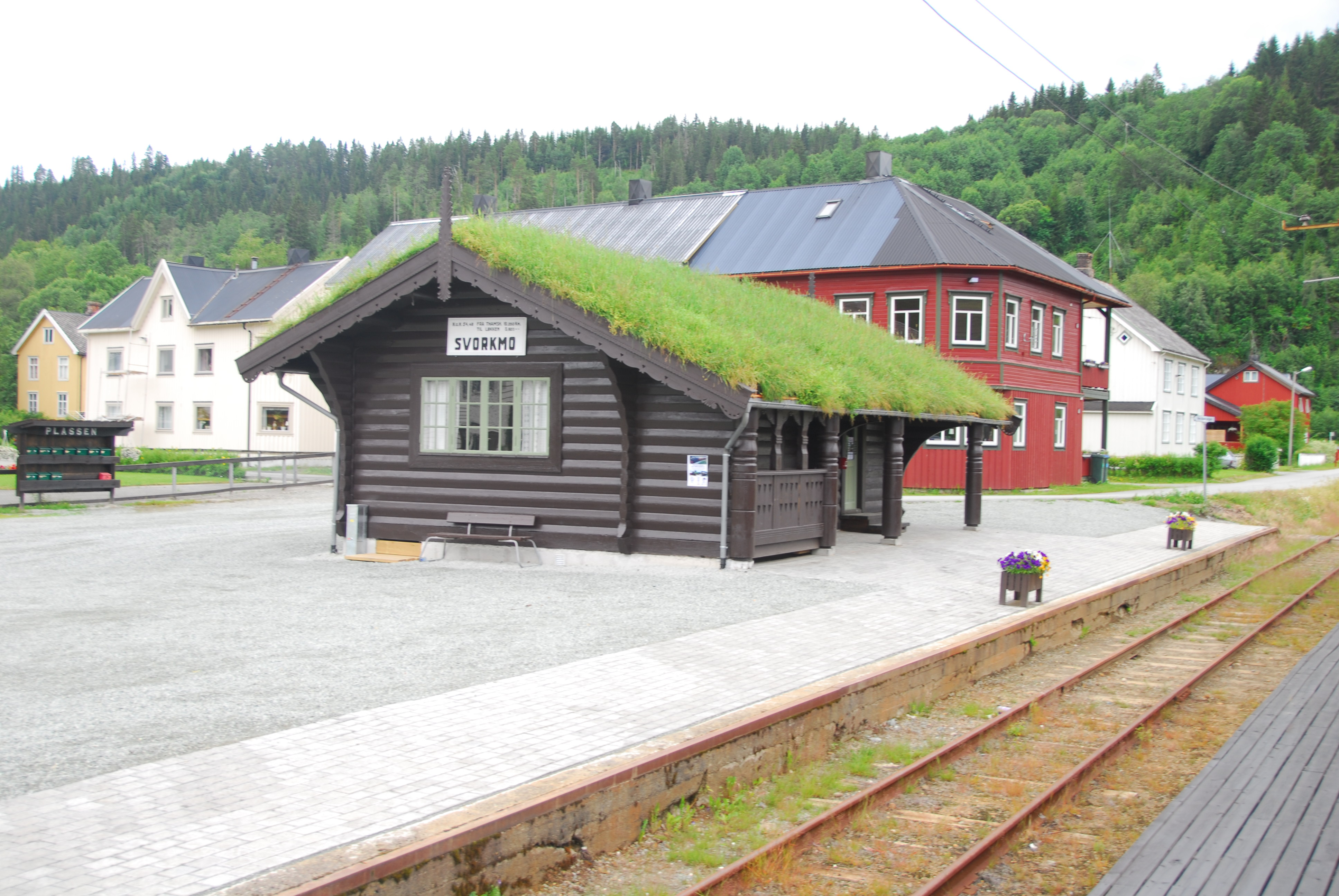 Svorkmo Station on Thamshavnbanen in Orkdal, Norway.